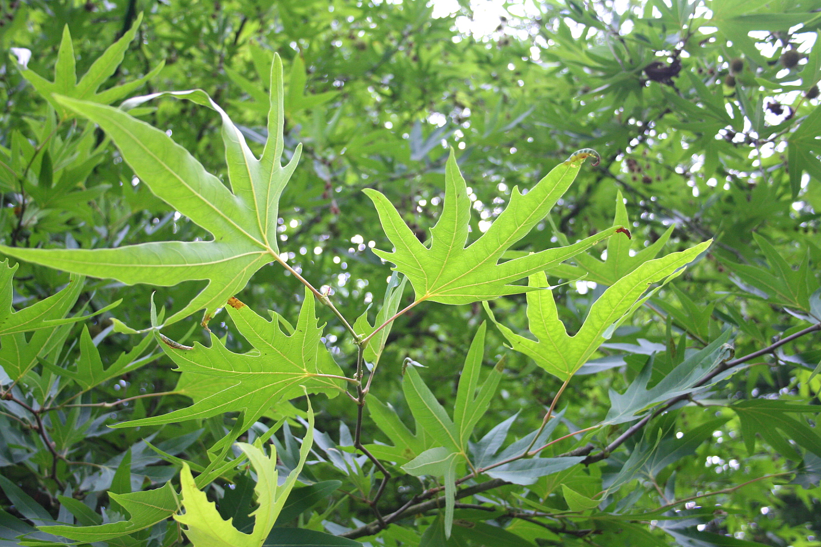 Oriental plane cv. ‘Digitata’ leaves